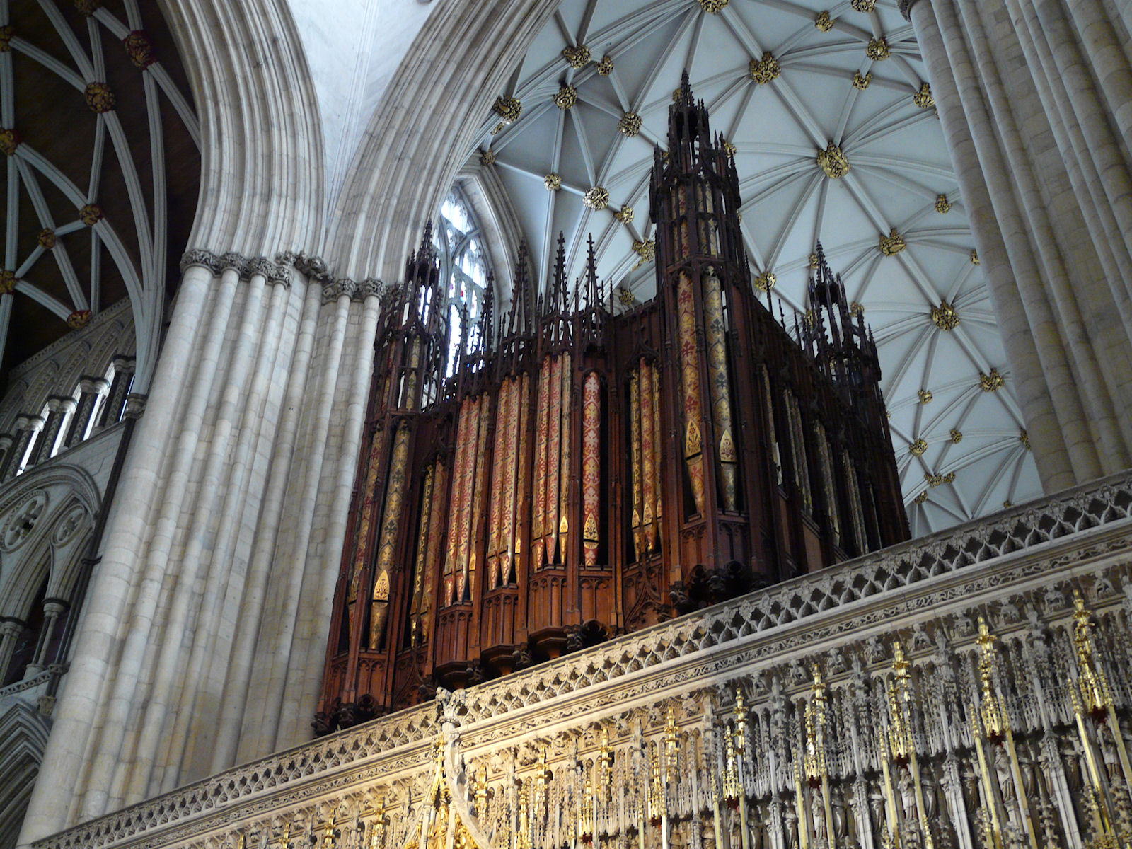 Organ above the pulpitum in York Minster, York, England